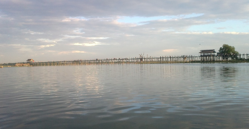 This is U Pein Bridge, wooden foot bridge, teak bridge. It is situated over Taung Tha Man Lake, Amarapura Township, Myanmar.